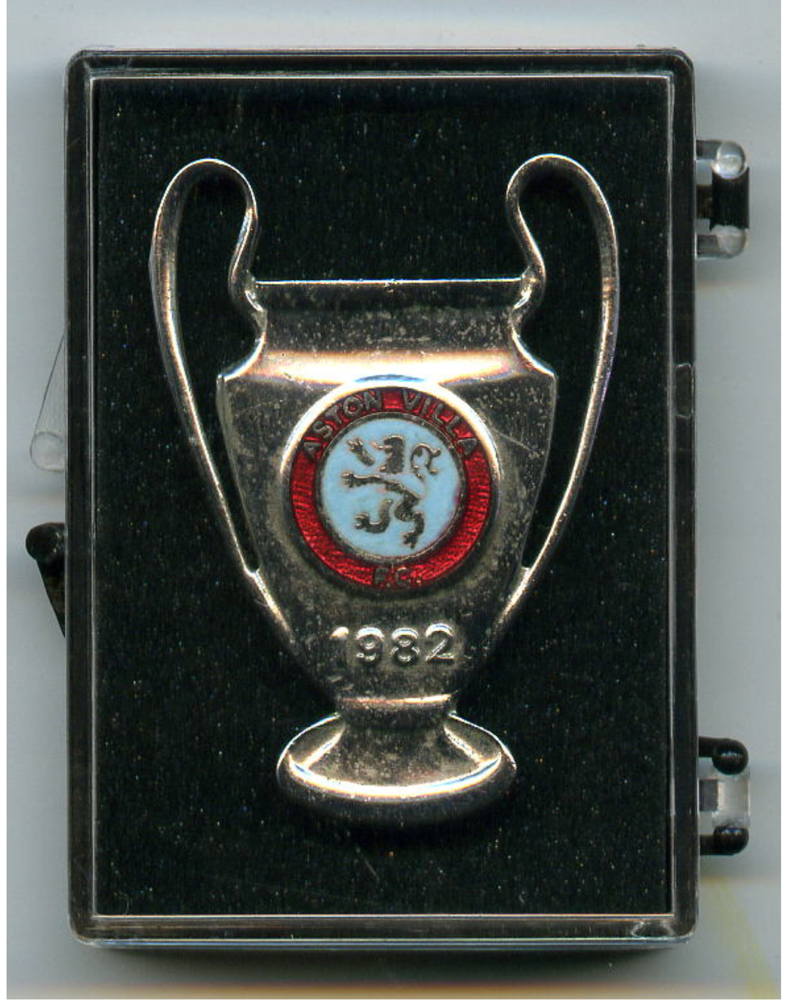 An enamel European cup Aston Villa pin badge from the 1982 winning season.